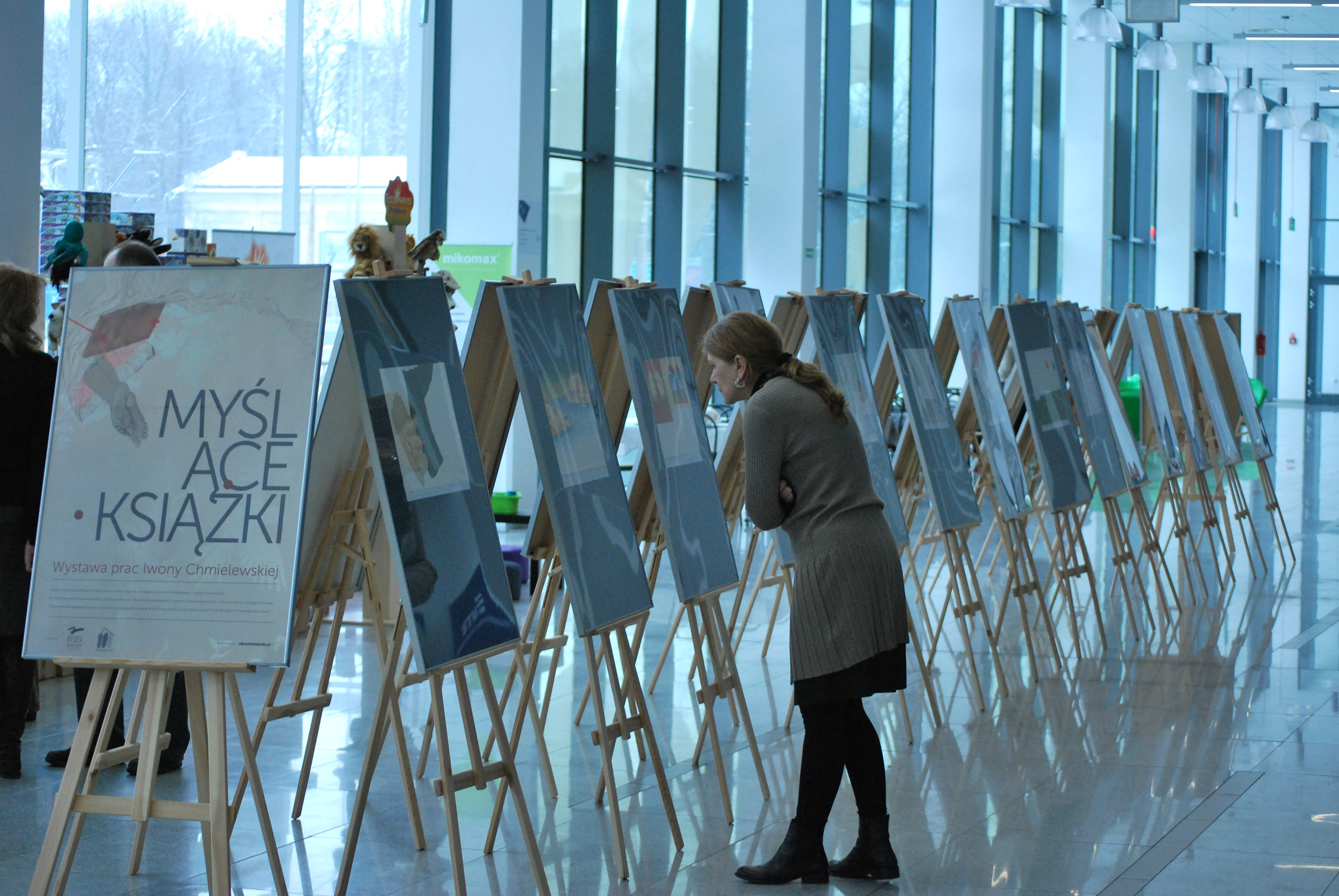 Interesting Book Exhibition, Łódź December 2012